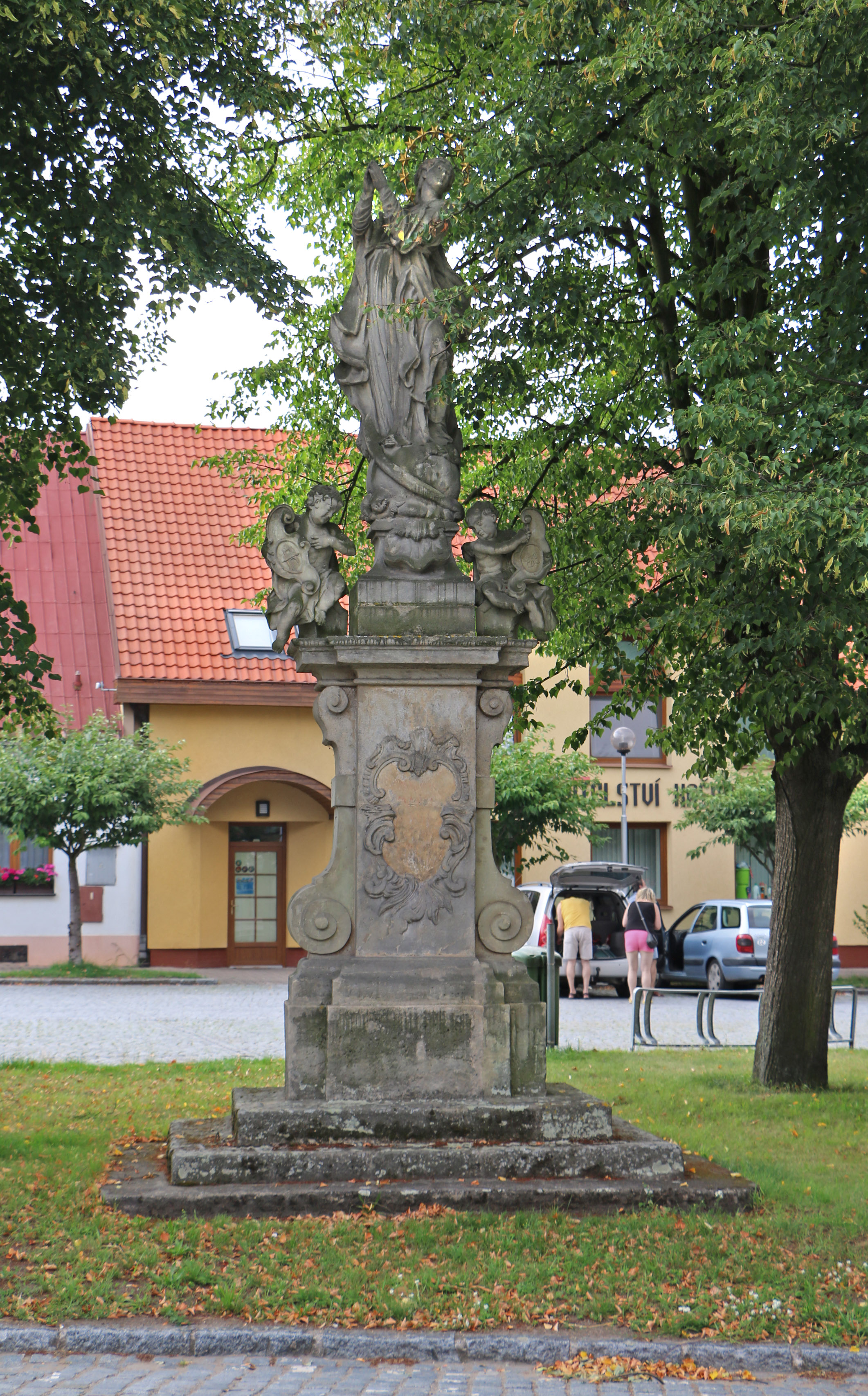 Virgin Mary at Náměstí square in Borohrádek, Czech Republic.